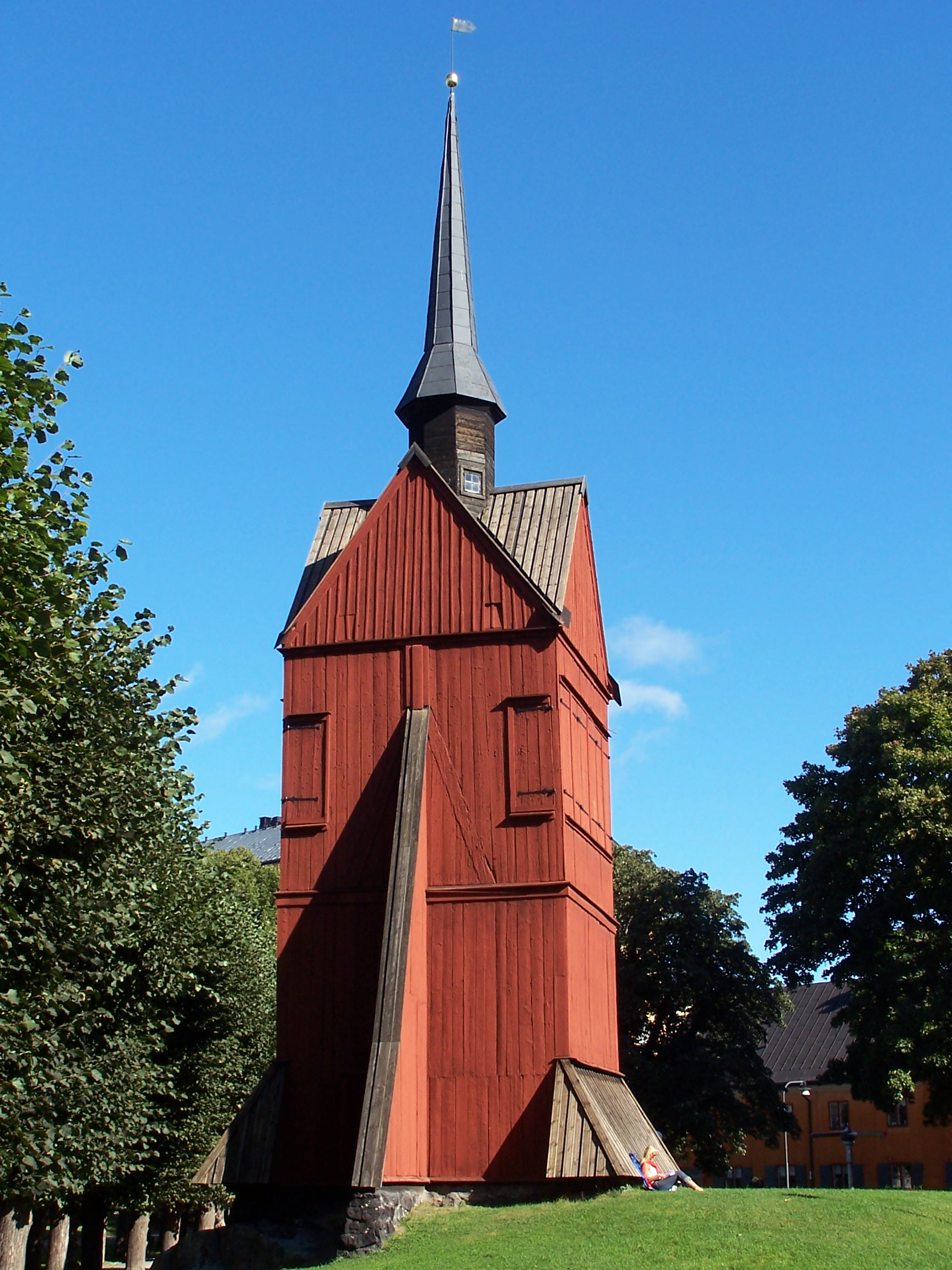 Johannes church, Stockholm, Sweden - Bell tower